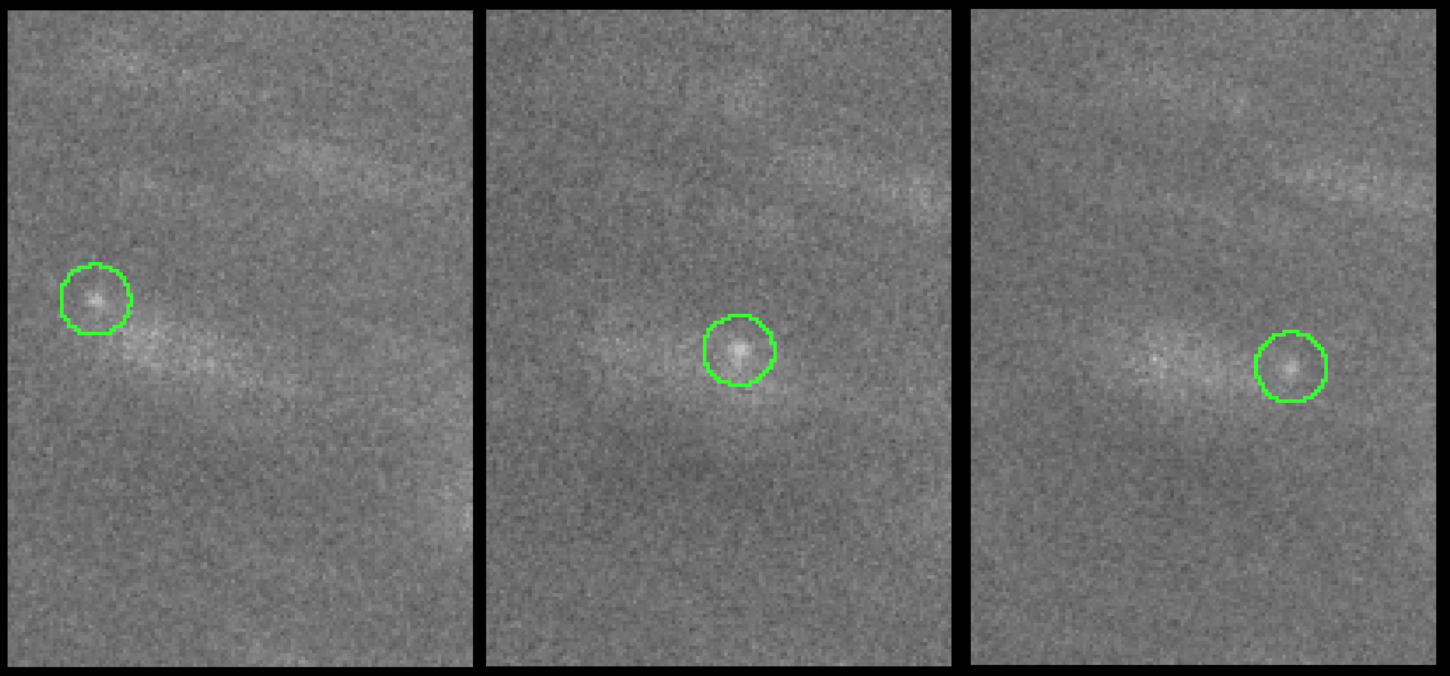 Scientists used these faint, fuzzy images to pinpoint one of three new Neptunian moons more than 4 billion km (2.8 billion miles) from the Sun. This is Halimede (S/2002 N1).